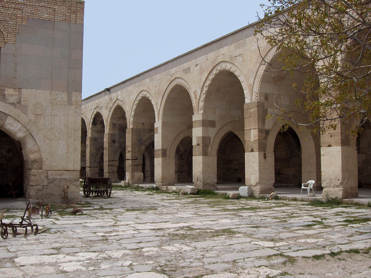 Inner courtyard of the caravanserai at Aksaray, Turkey.